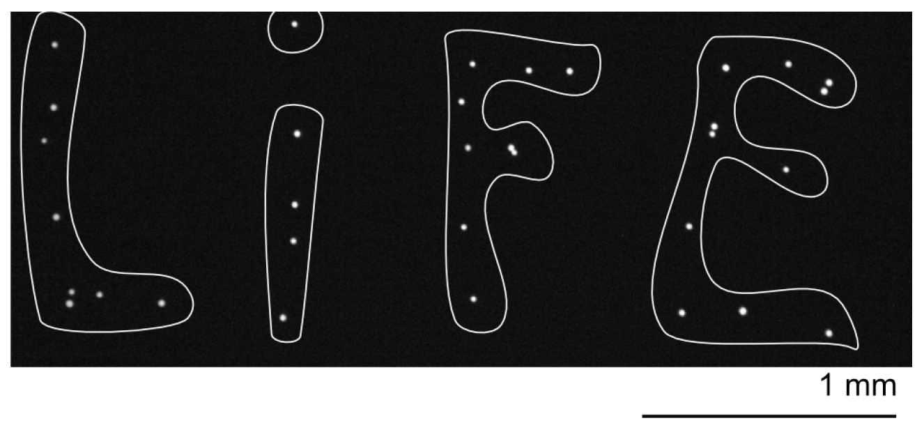 Selective acoustic tweezers write LIFE